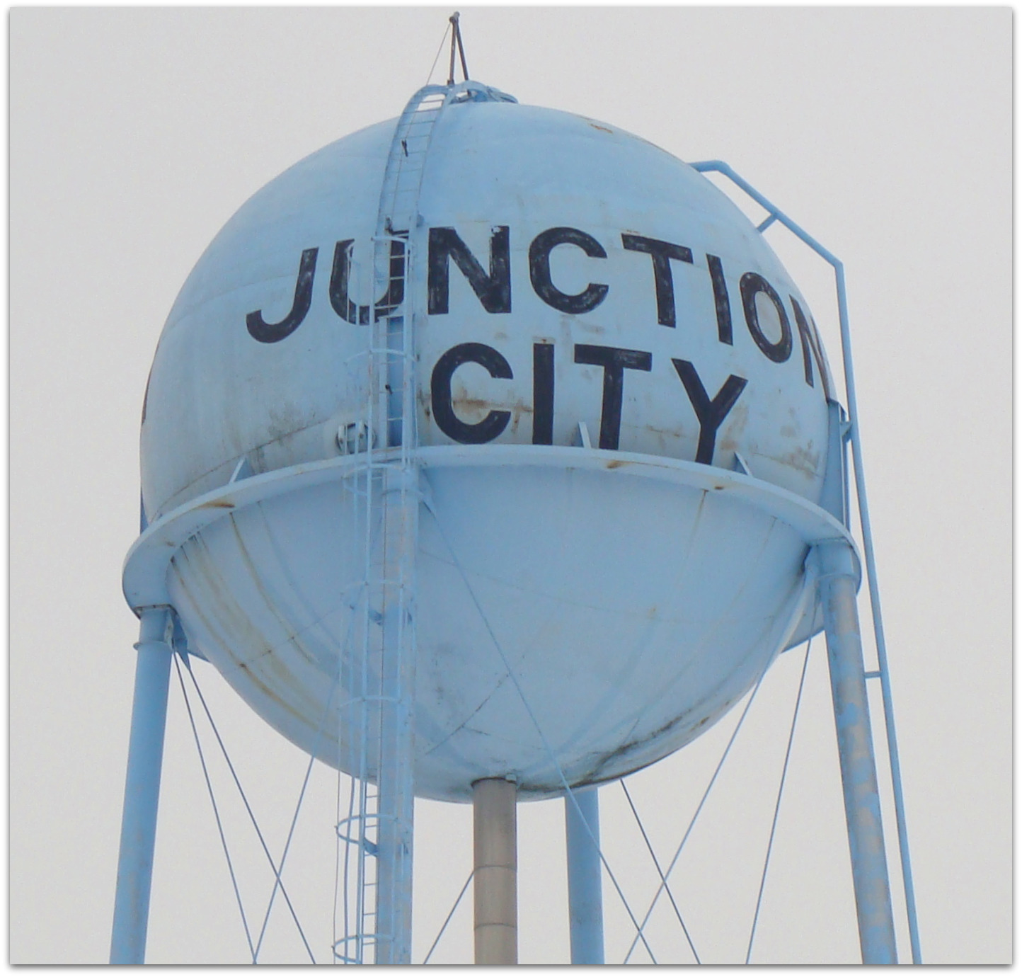 The water tower for Junction City, Wisconsin. Please use "Doug Wallick" for photo credit.